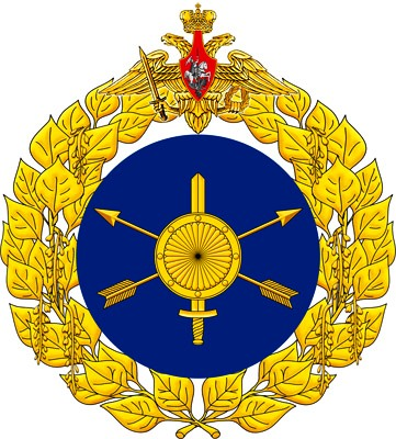 The great emblem of the Russian Strategic Rocket Forces